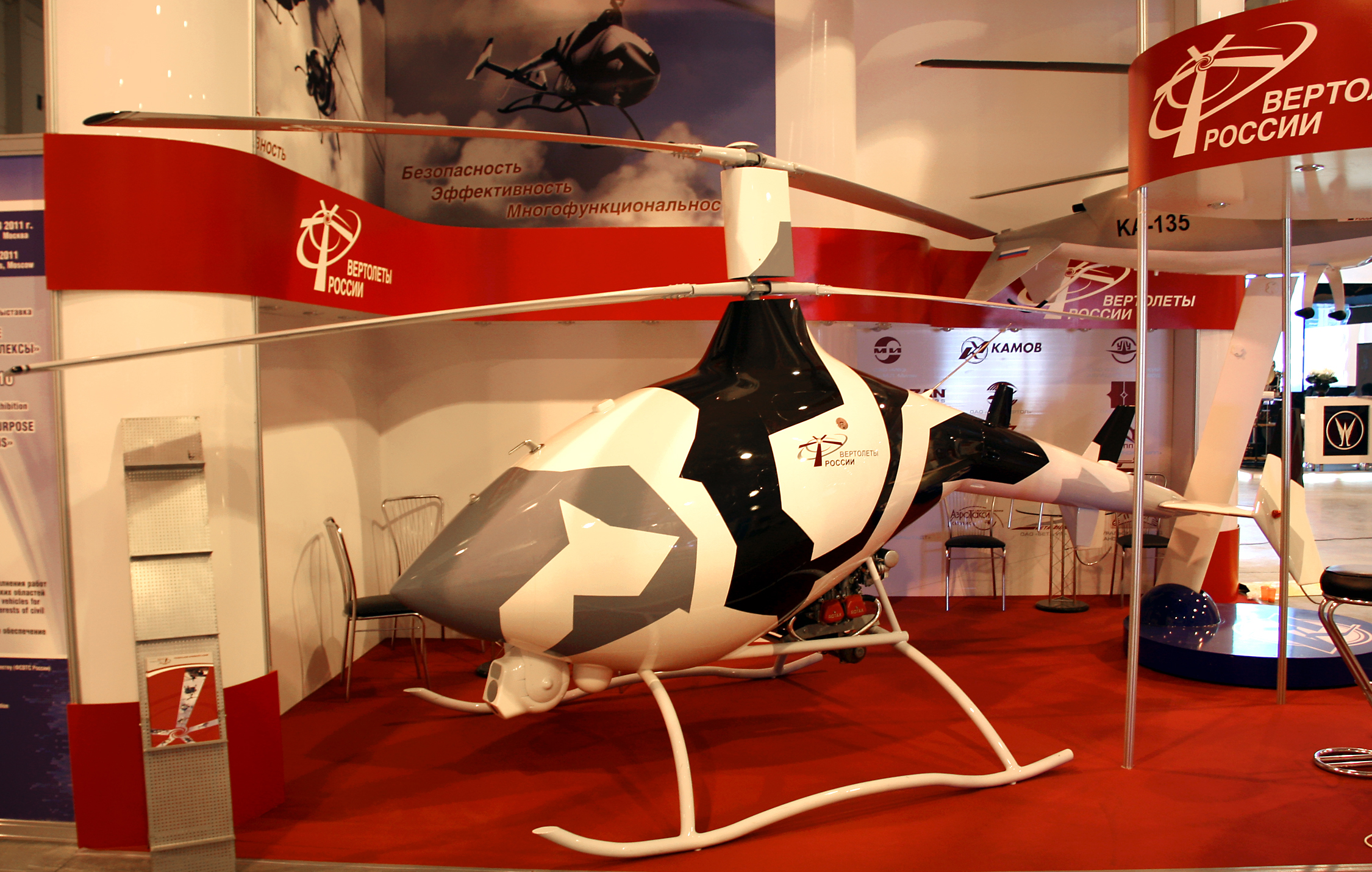 Korshun UAV - Engineering technologies international forum-2010